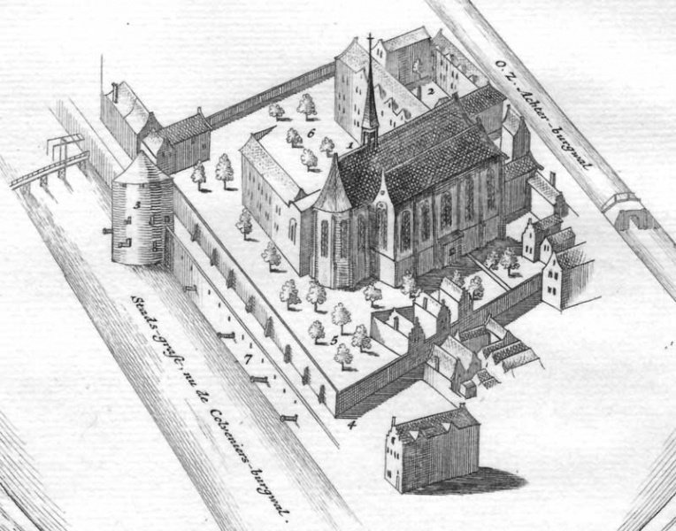 Bird's perspective of the Old Walloon Church of Amsterdam.